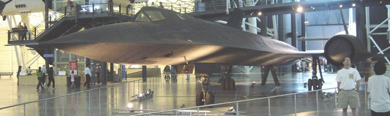 SR-71 Blackbird at National Air & Space Museum